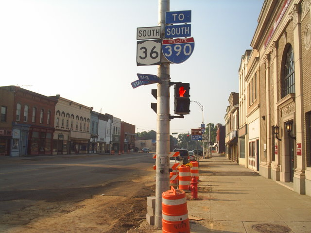 The junction of Main (New York State Route 36) and State (New York State Route 408) Streets in Mount Morris. NY 408 joins NY 36 here and leaves one block later at Chapel Street, visible in the background.